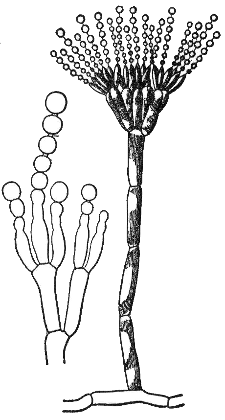 Conidium